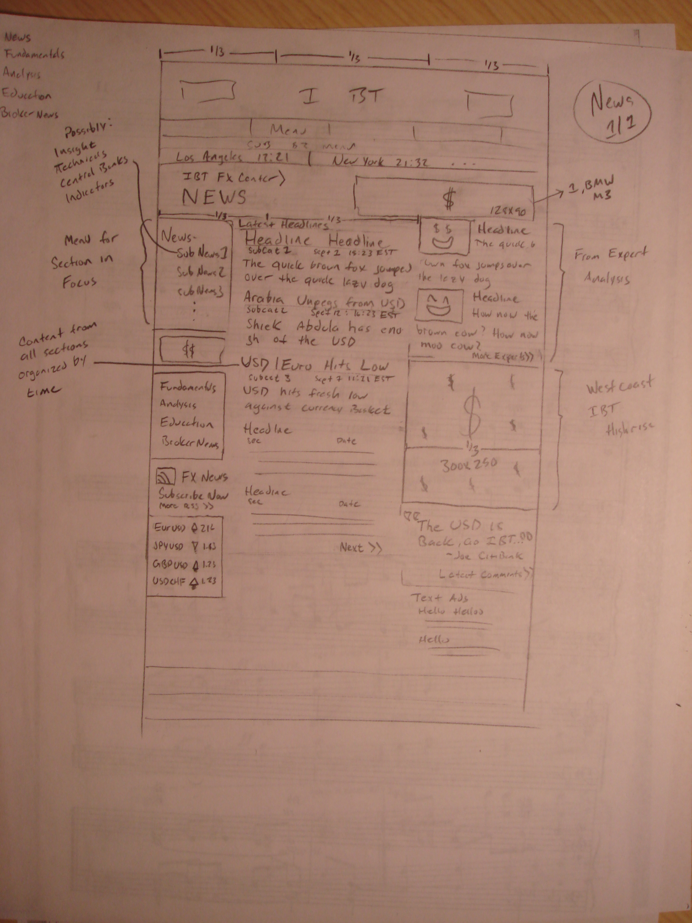 This is first layout of what was to become the IBT Forex Center, circa 2007. By Johnathan Davis